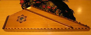 A picture of a gusli (Russian: гу́сли), one of the oldest Russian types of multi-string plucked instruments.